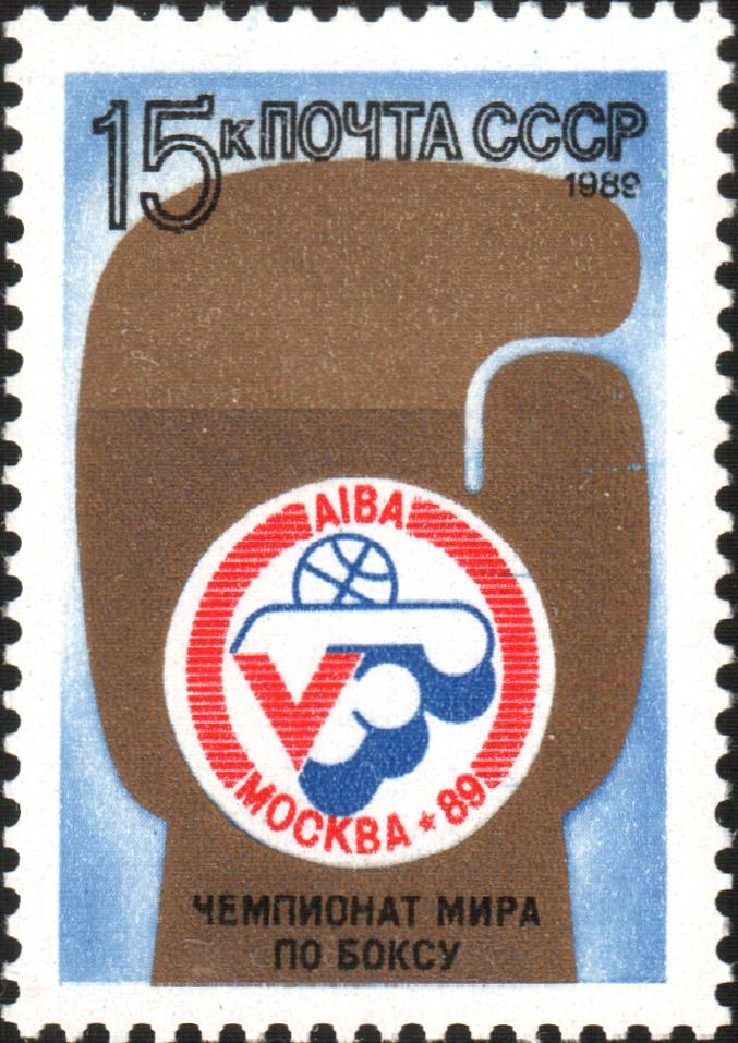 5th World Boxing Championships, Moscow